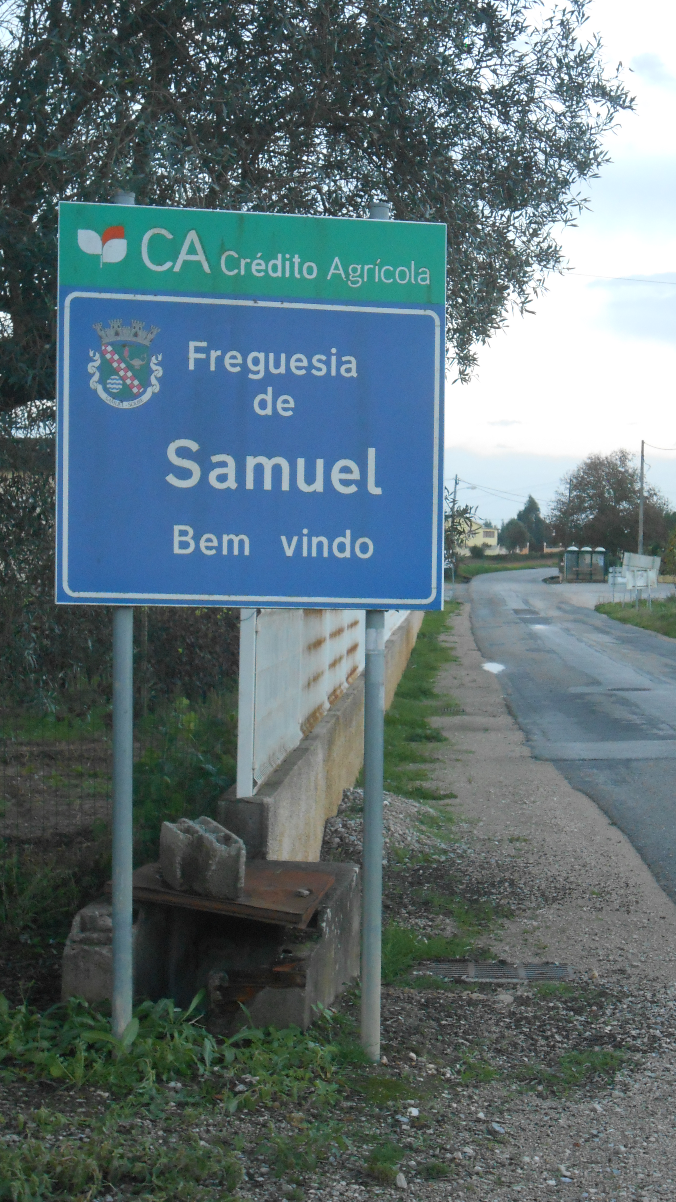 Entry sign of the parish (freguesia) Samuel, municipality (concelho) of Soure, Portugal, when leaving Abrunheira.